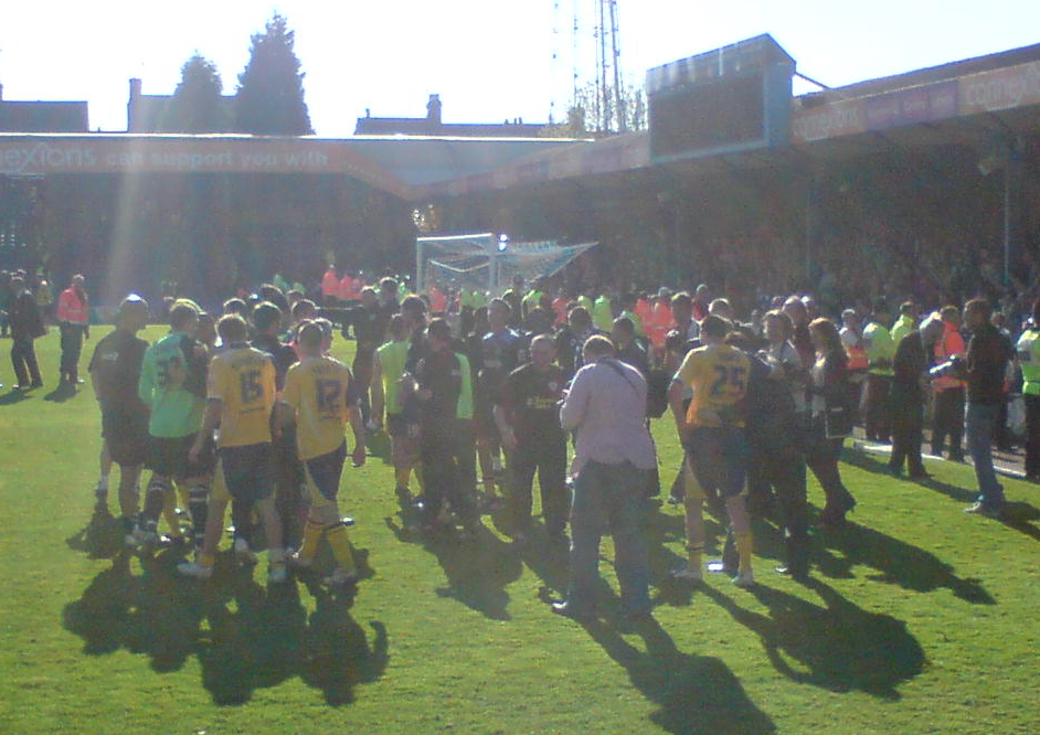 Leicester confirming promotion as champions of League One at Southend.